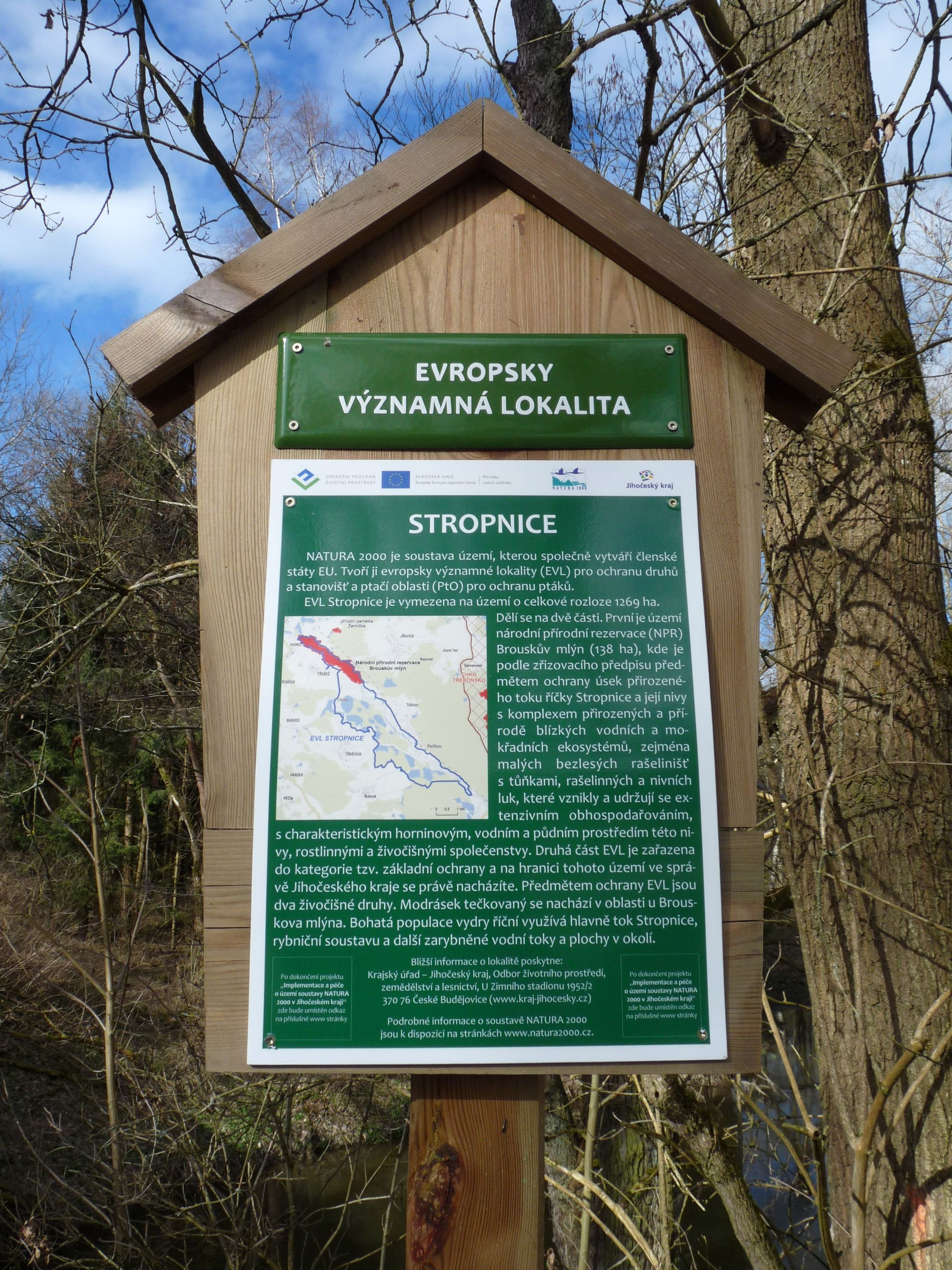 Sign of Stropnice, Special Area of Conservation, in the village of Byňov, České Budějovice District, South Bohemian Region, Czech Republic.